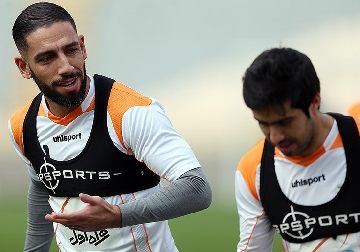 Ashkan Dejagah and Khosro Heydari in Iran national football team training